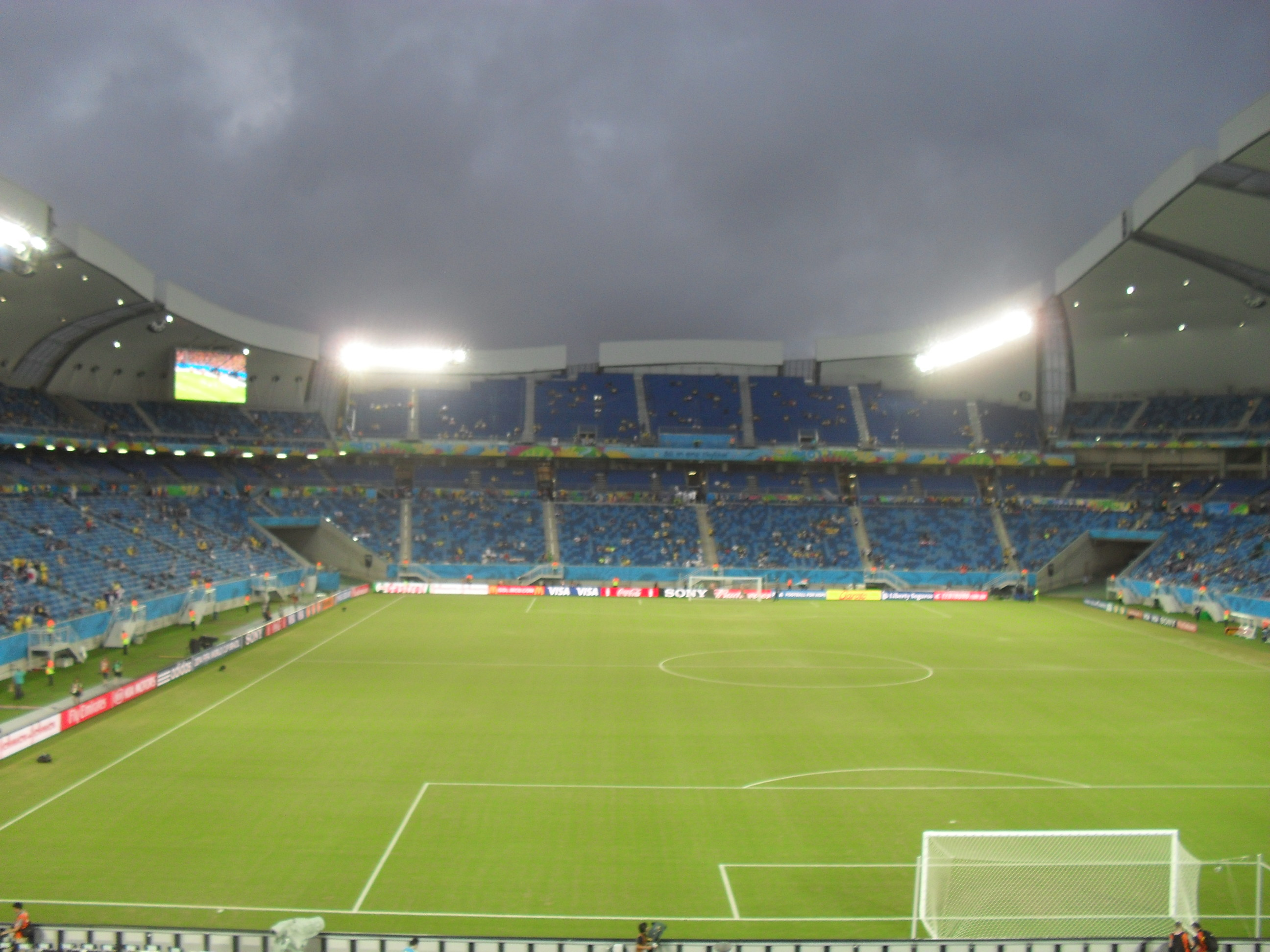 Arena das Dunas before the Japan x Greece match for the 2014 FIFA World Cup